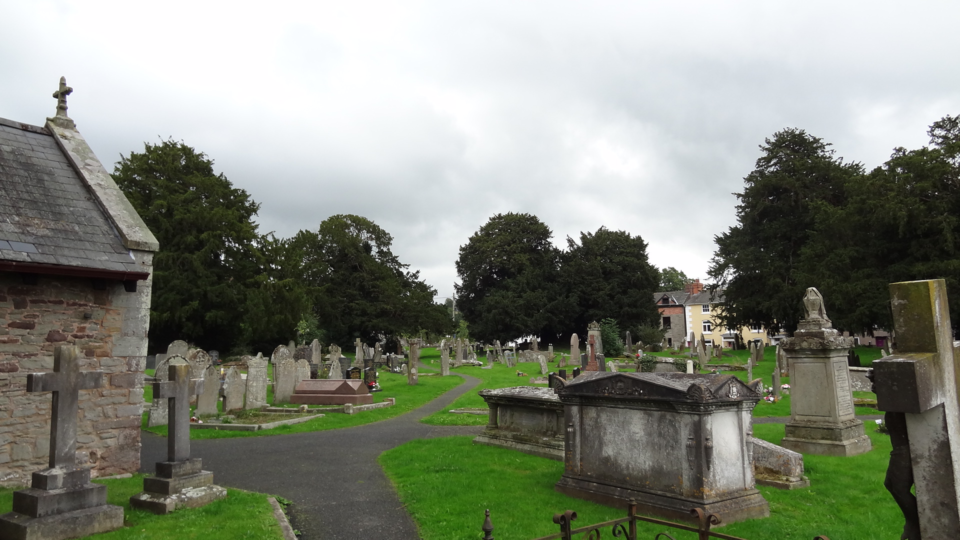 Land surrounding Talgarth church possibly the sit of Garth Madrun